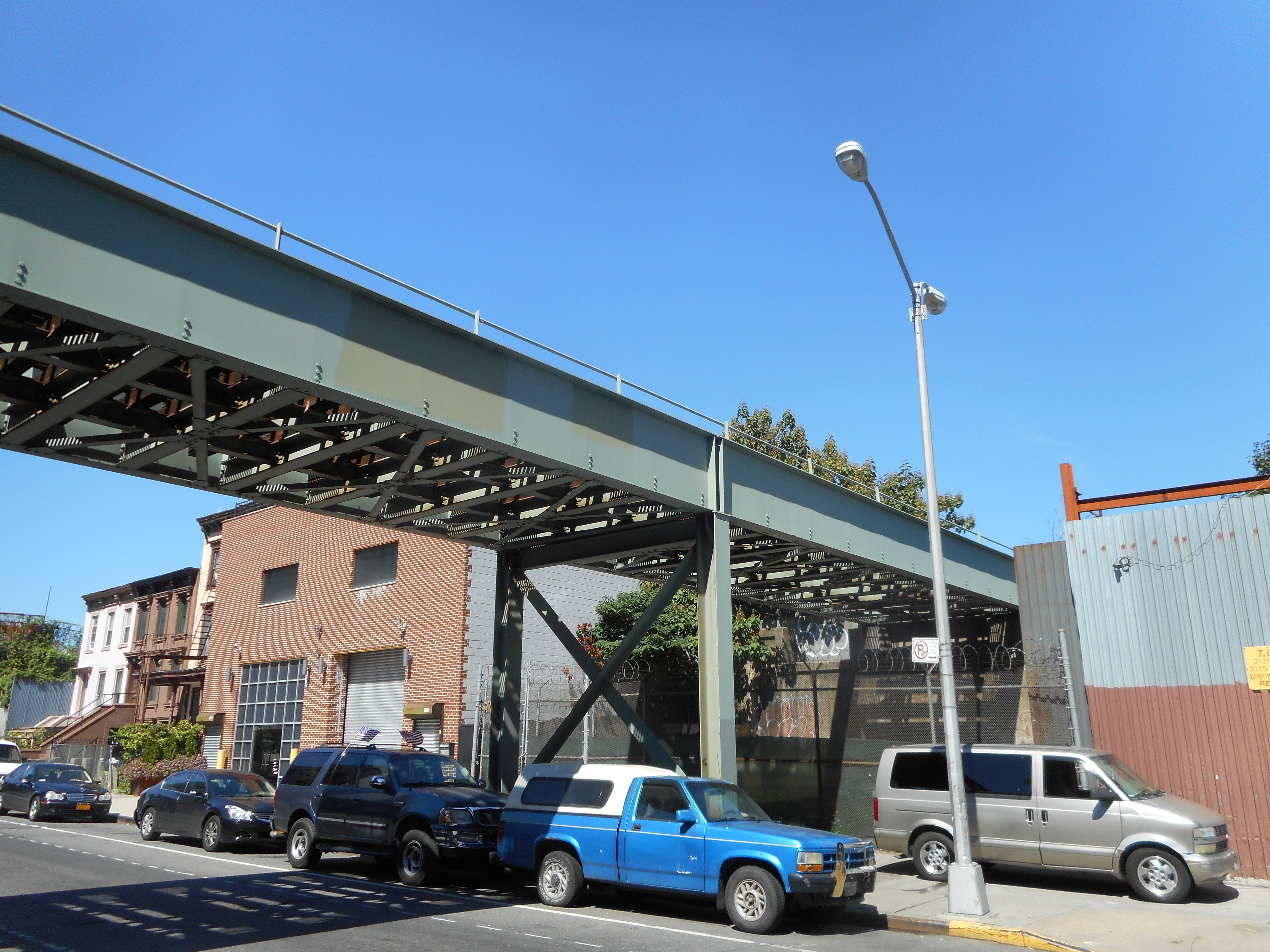 Site of the former Dean Street (BMT Franklin Avenue Line) station in the Bedford-Stuyvesant section of Brooklyn, New York City. I later learned that the shorter lamppost was for the staircase to the station house that hasn't existed since 1995, and I wasn't even paying attention to those details when I took this picture.